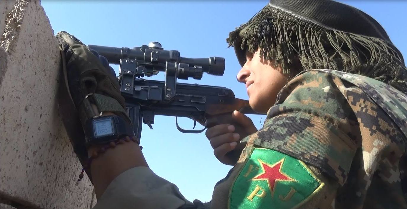 YPJ sniper at the Raqqa frontline in November 2016.